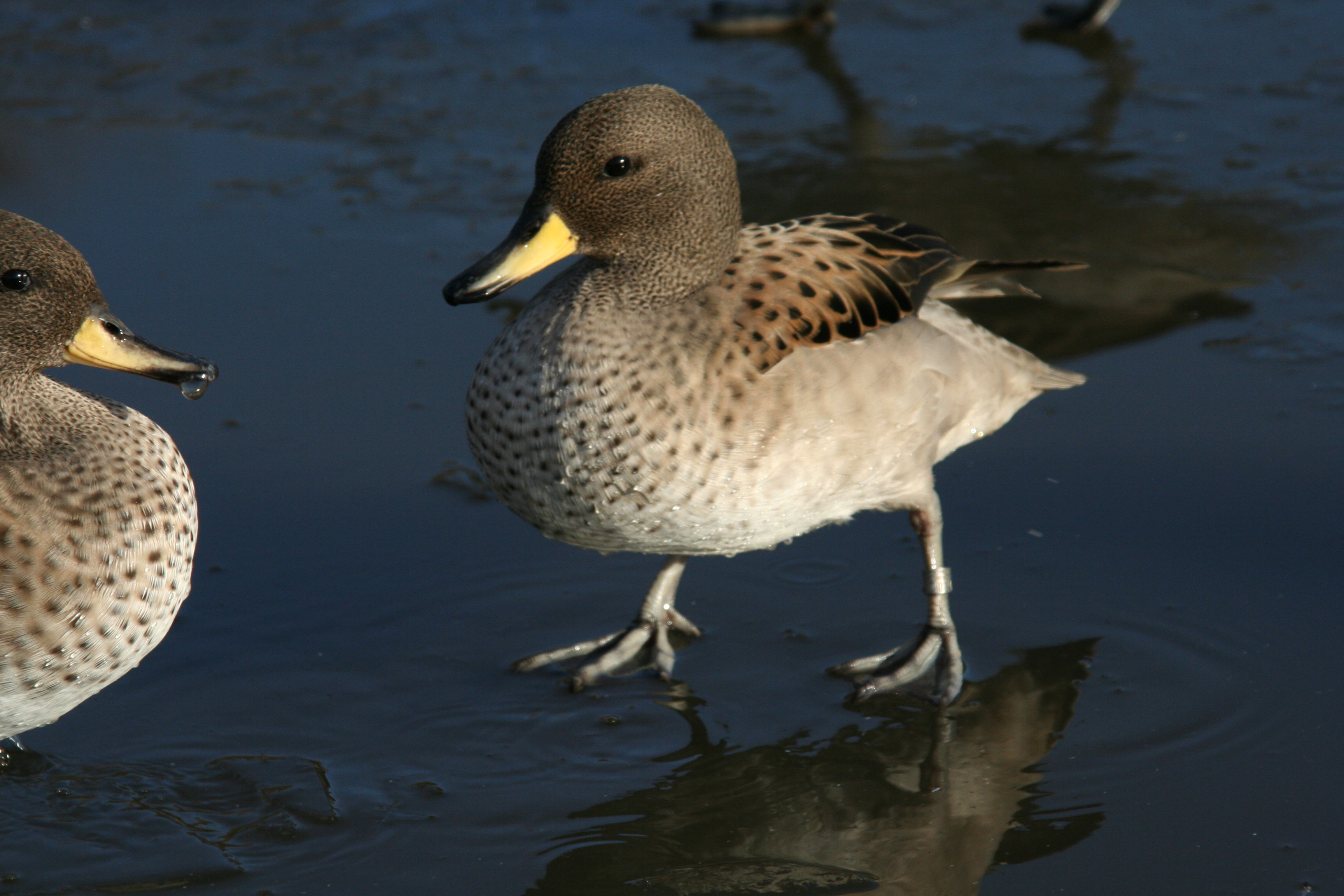 (Anas flavirostris oxptera) Sharp-winged Teal.